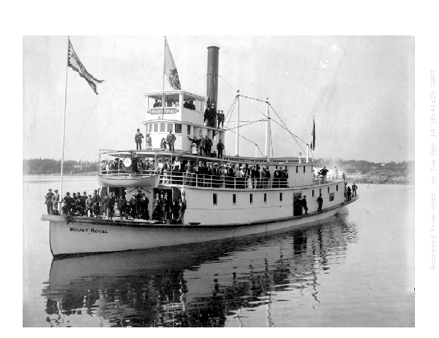 Photographer Jones Photo taken 1902 Source BC Archives # C-03885 [1]